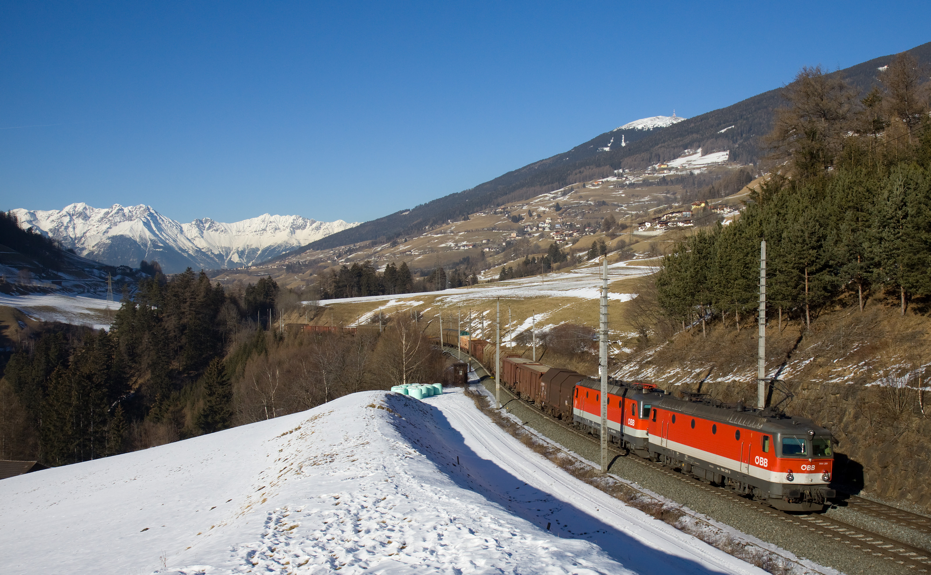 Two Österreichische Bundesbahnen class 1144 running in multiple with a freight train climbing the Brenner pass, between Innsbruck and Matrei.